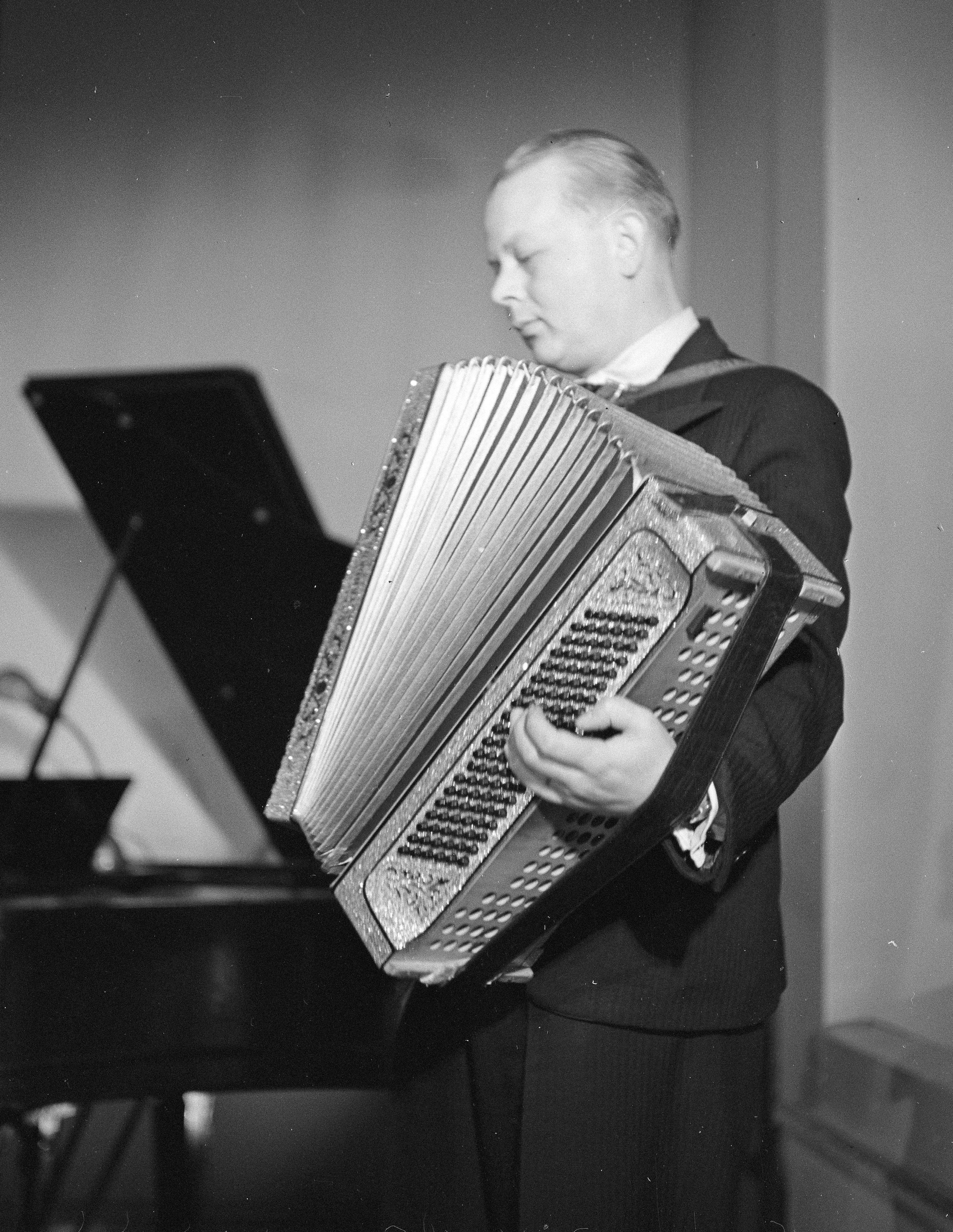 Photograph of the Finnish composer Harry Bergström (1910–1989) playing accordion.